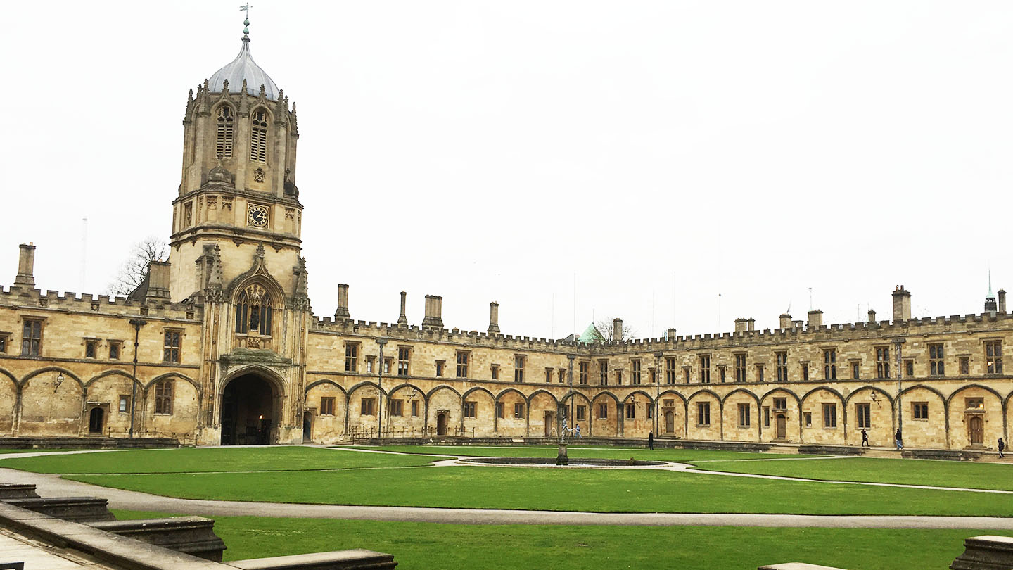 Tom Quad at Christ Church, Oxford